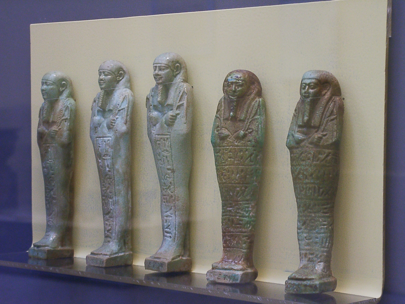 Ushabtis in Debrencen, Déri Múzeum